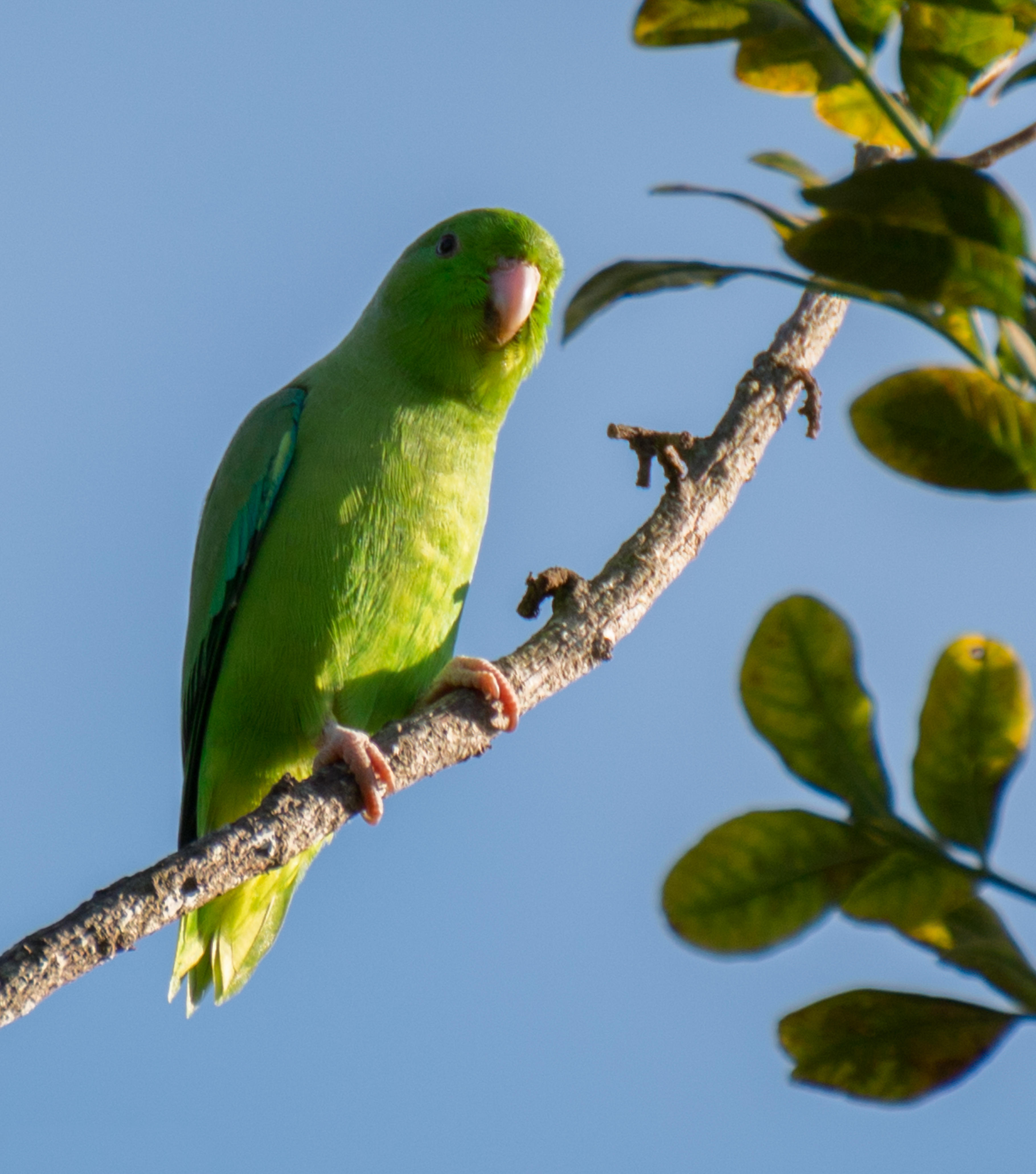 Trinidad 2014, Caribbean